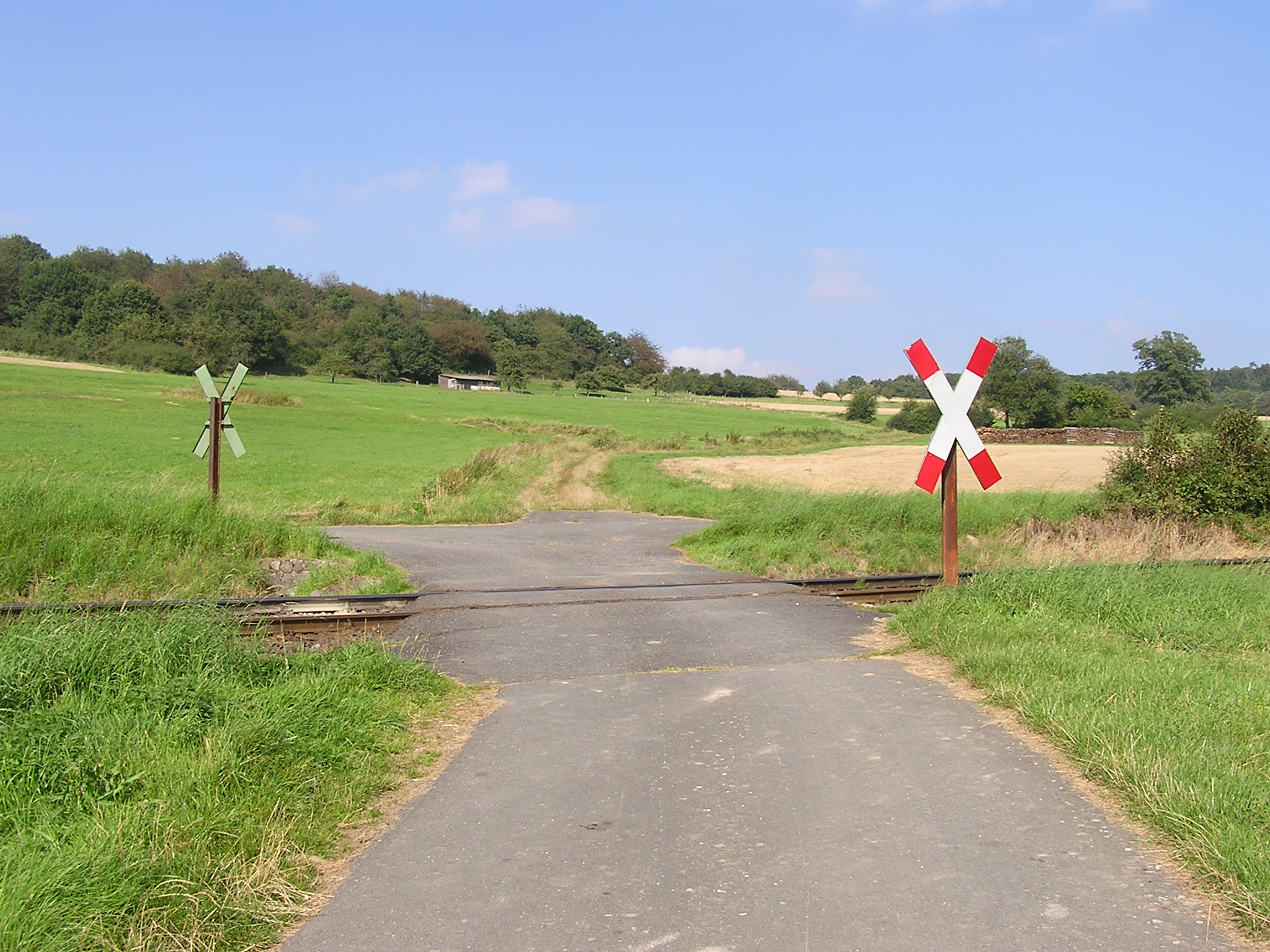 Level crossing at the Taunusbahn in Grävenwiesbach-Hundstadt